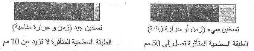 التسخين وتأثيره